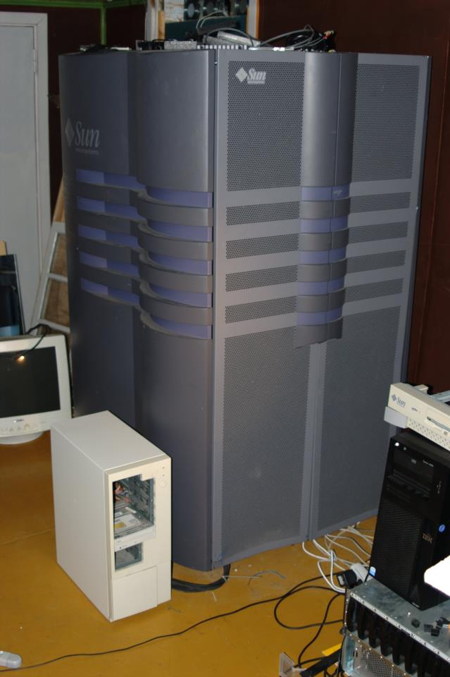 Sun Starfire 10000 supercomputer at home. Monitor on left side is 21 inch Nokia, white computer in front is big full size tower. Picture is taken by myself in my home Räpina, Estonia.